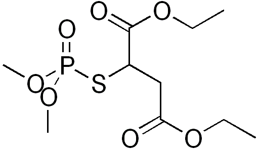 Chemical structure of malaoxon, a breakdown product of malathion